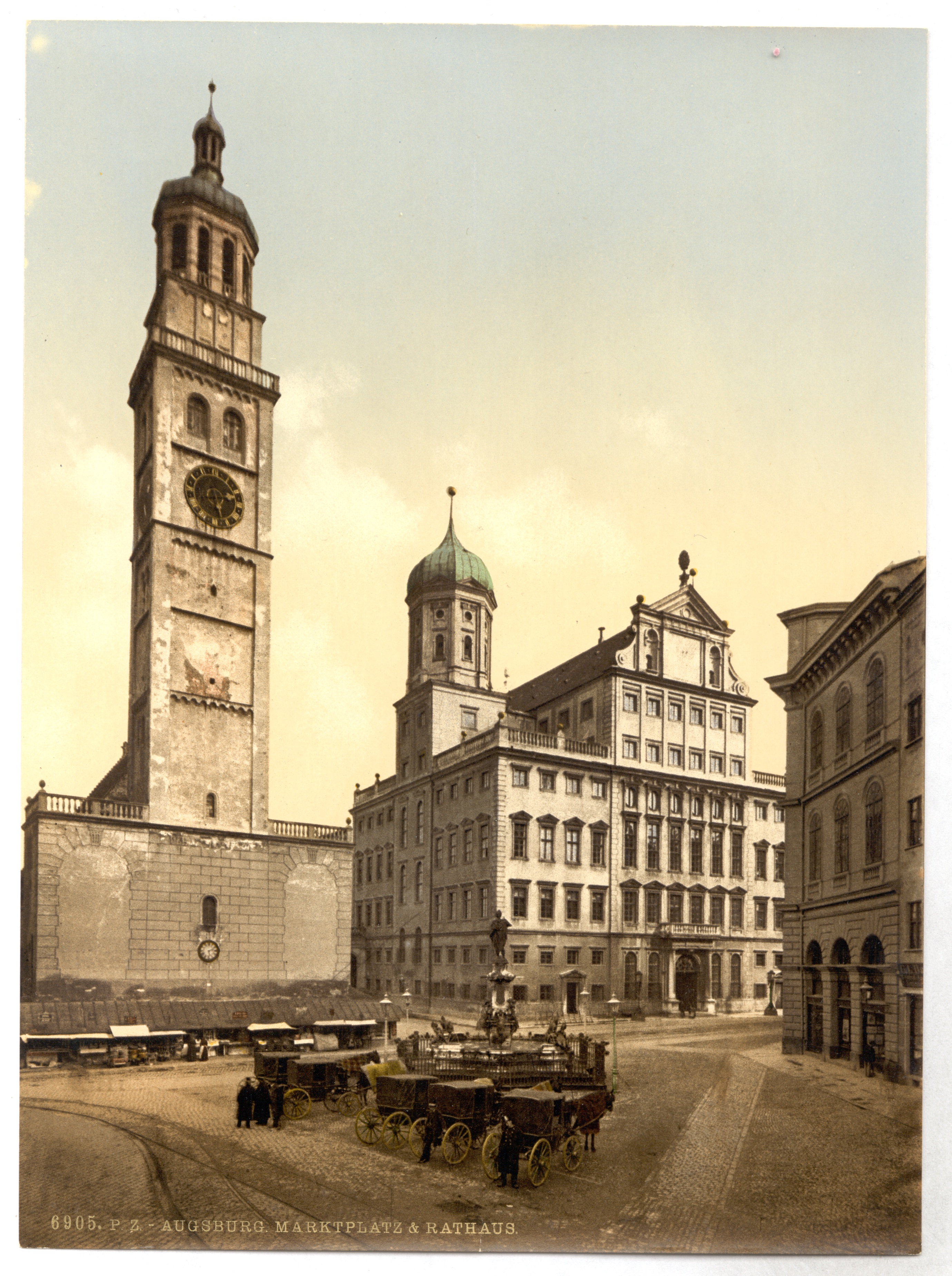 Title from the Detroit Publishing Co., catalogue J-foreign section. Detroit, Mich. : Detroit Photographic Company, 1905.; Caption on item: Augsburg Marketplatz and Rathaus.; Forms part of: Views of Germany in the Photochrom print collection.; Print no. "6905".